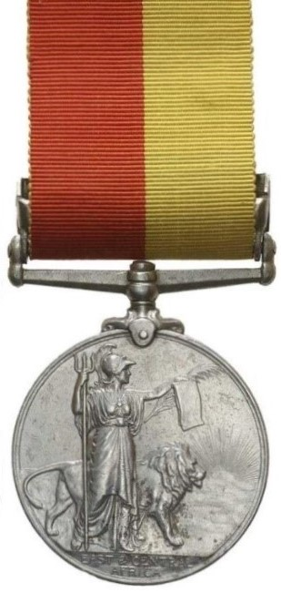 British campaign Medal for service in Africa, 1897-99